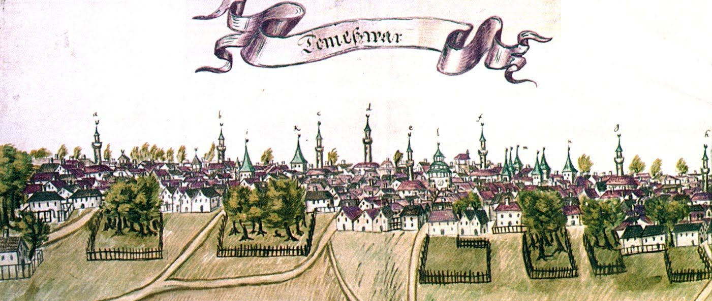 Drawing of Ottoman Timisoara, 1663